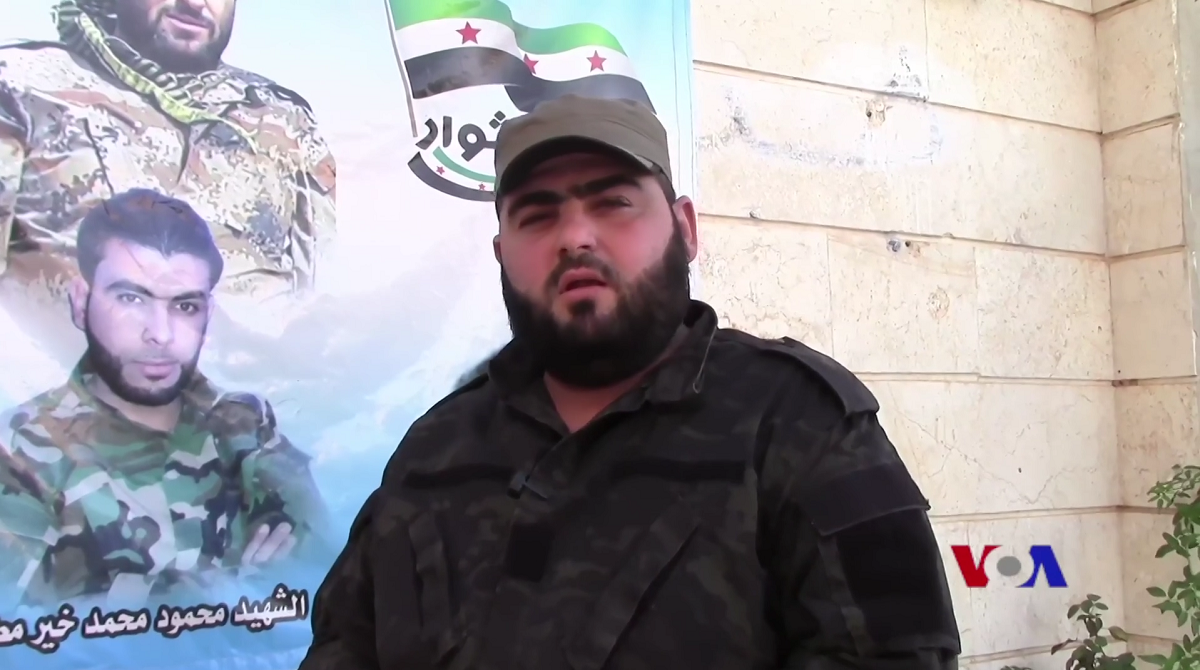 Abdul Malik Bard (also known as "Abu Ali"), commander of the Army of Revolutionaries, in late 2017.